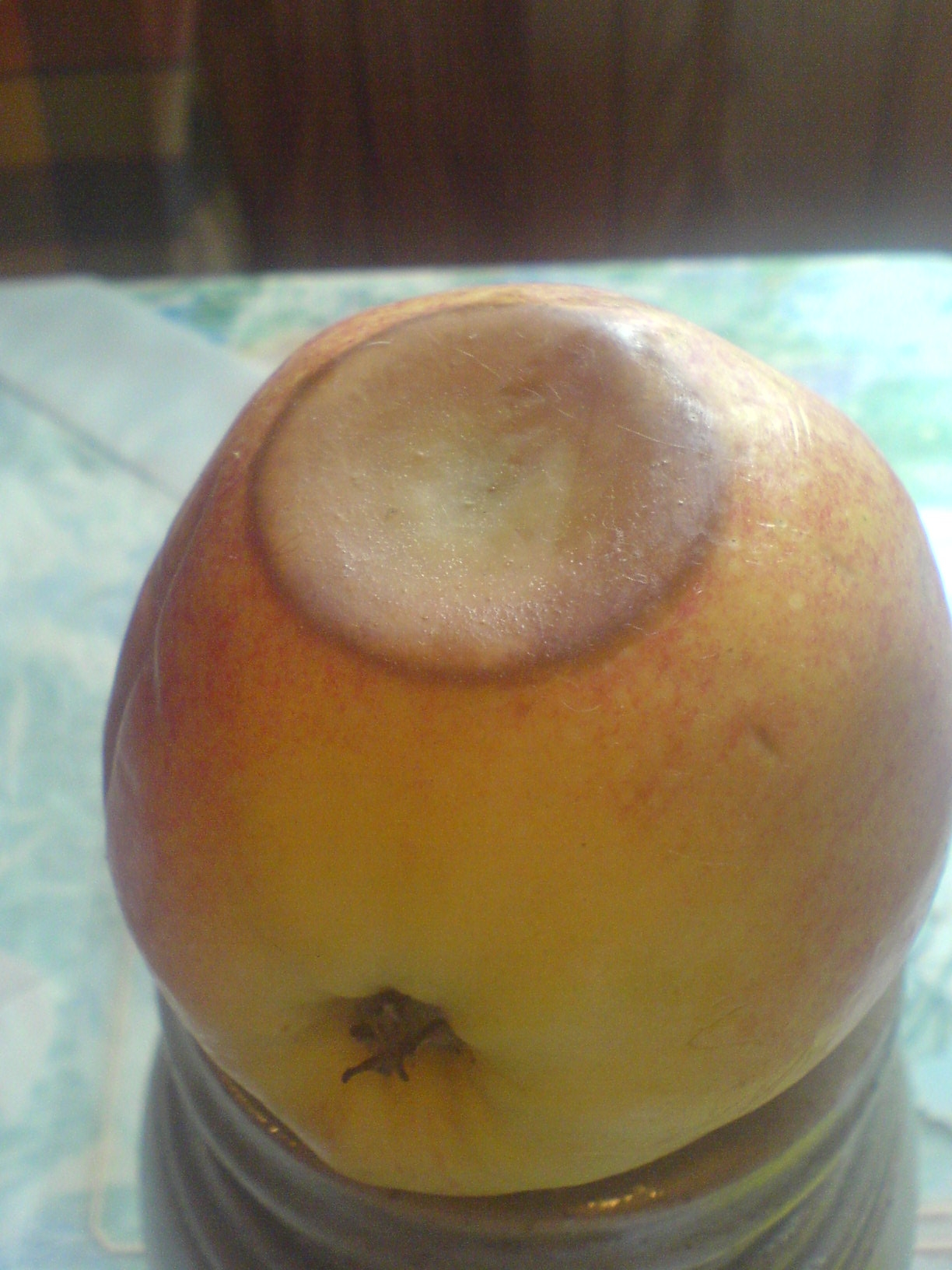 An apple with initiating putrefaction due to a drag mark.